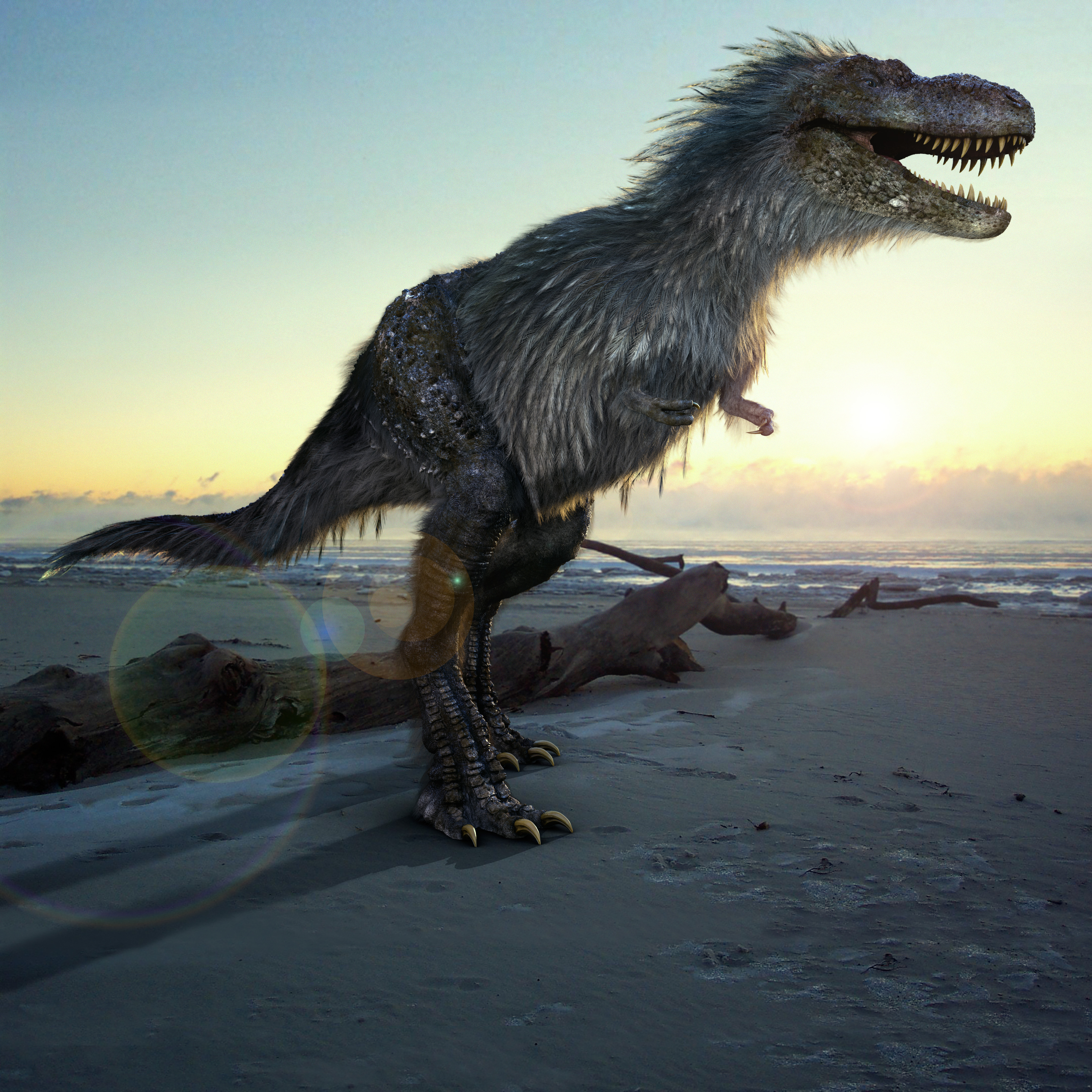 Life restoration of Gorgosaurus